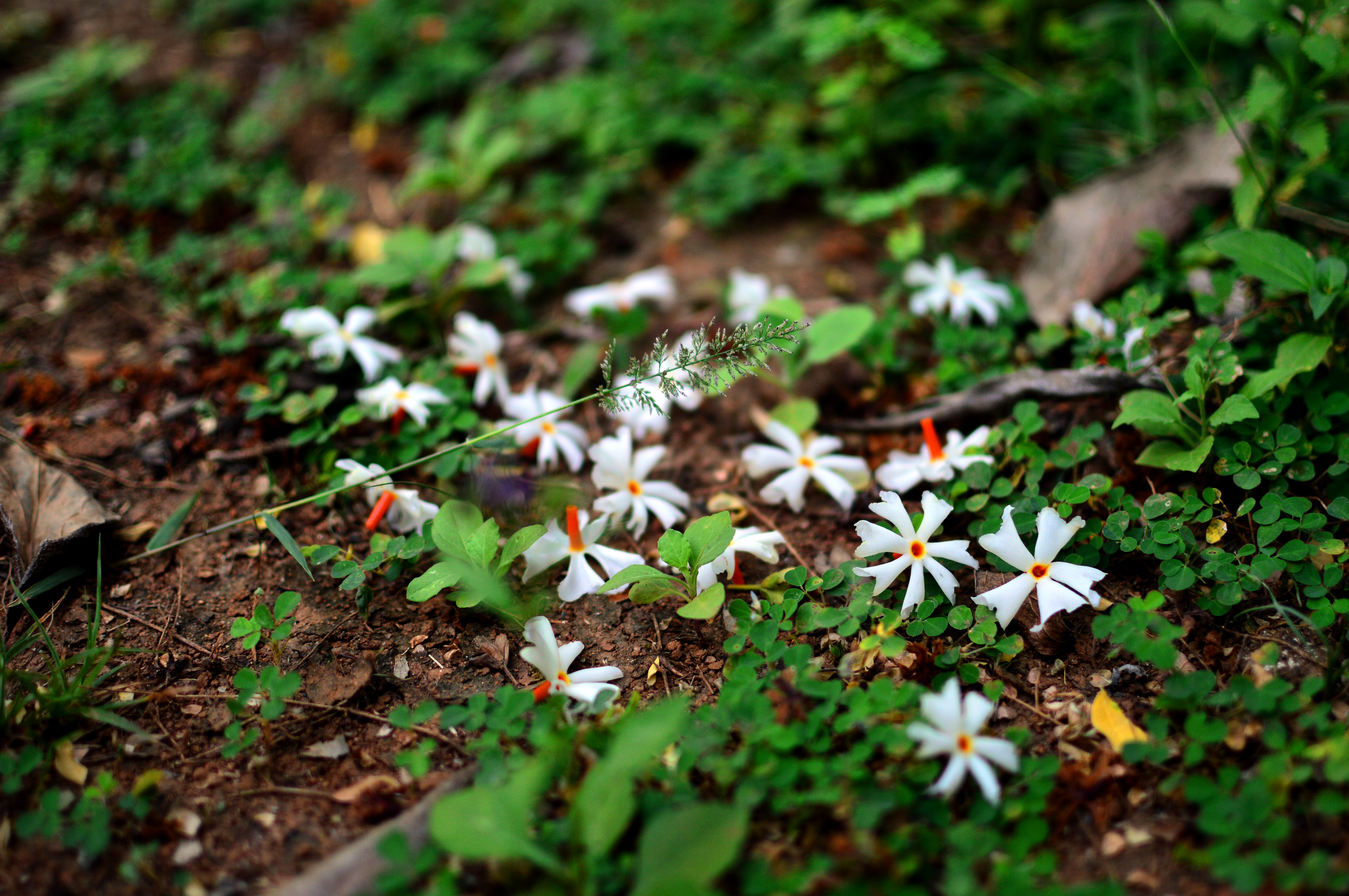 Nyctanthes arbor-tristis (Night-flowering Jasmine) is a species of Nyctanthes, native to South Asia and Southeast Asia നിക്റ്റാൻത്തസ്സ് അർബോട്ടിട്ടസ്സ് (Nyctanthes arbortristis) എന്ന ശാസ്ത്രനാമത്തിൽ അറിയപ്പെടുന്ന ഒരു വൃക്ഷമാണ് പവിഴമല്ലി അഥവാ പാരിജാതം.